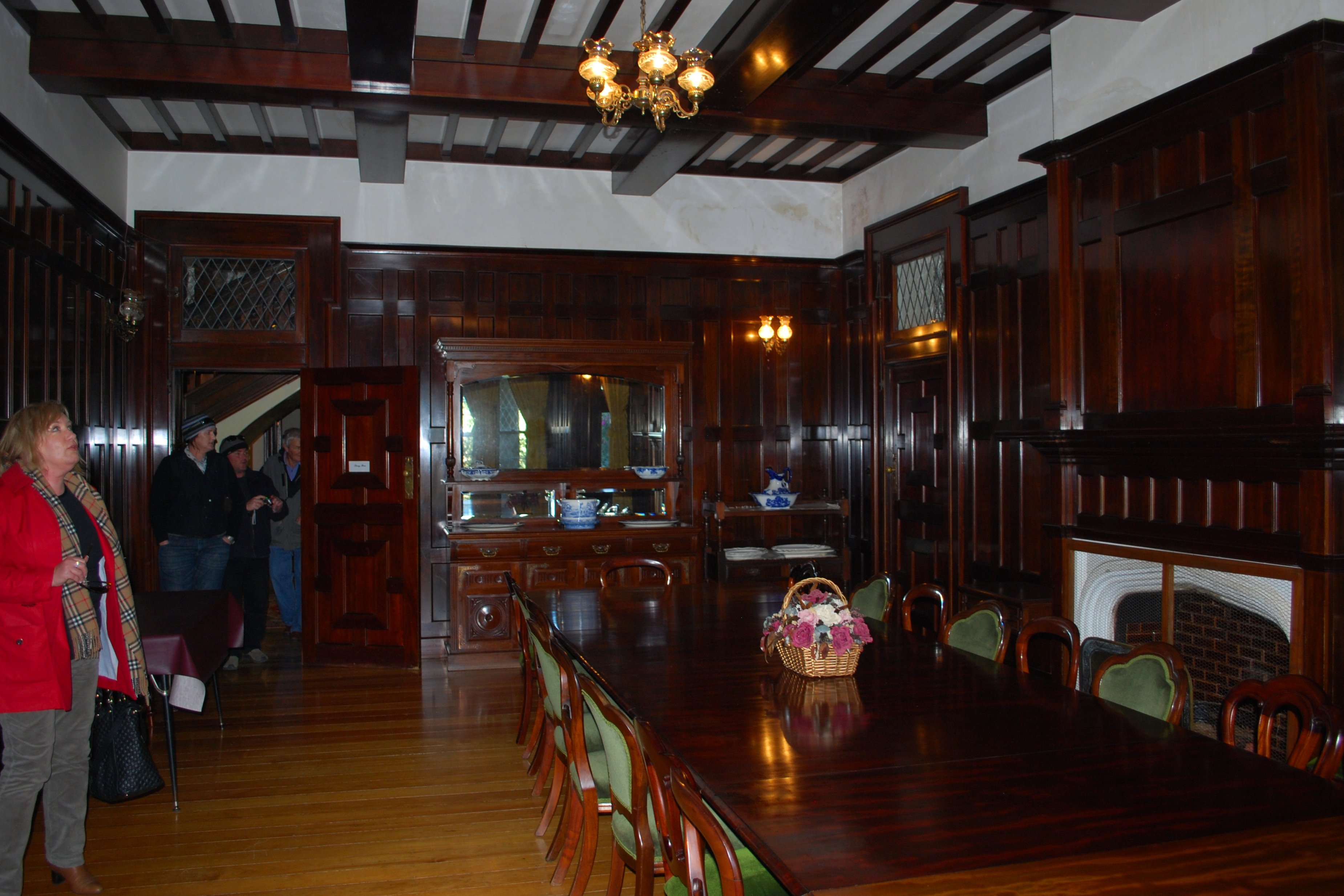 Iandra Castle, near Greenethorpe, New South Wales